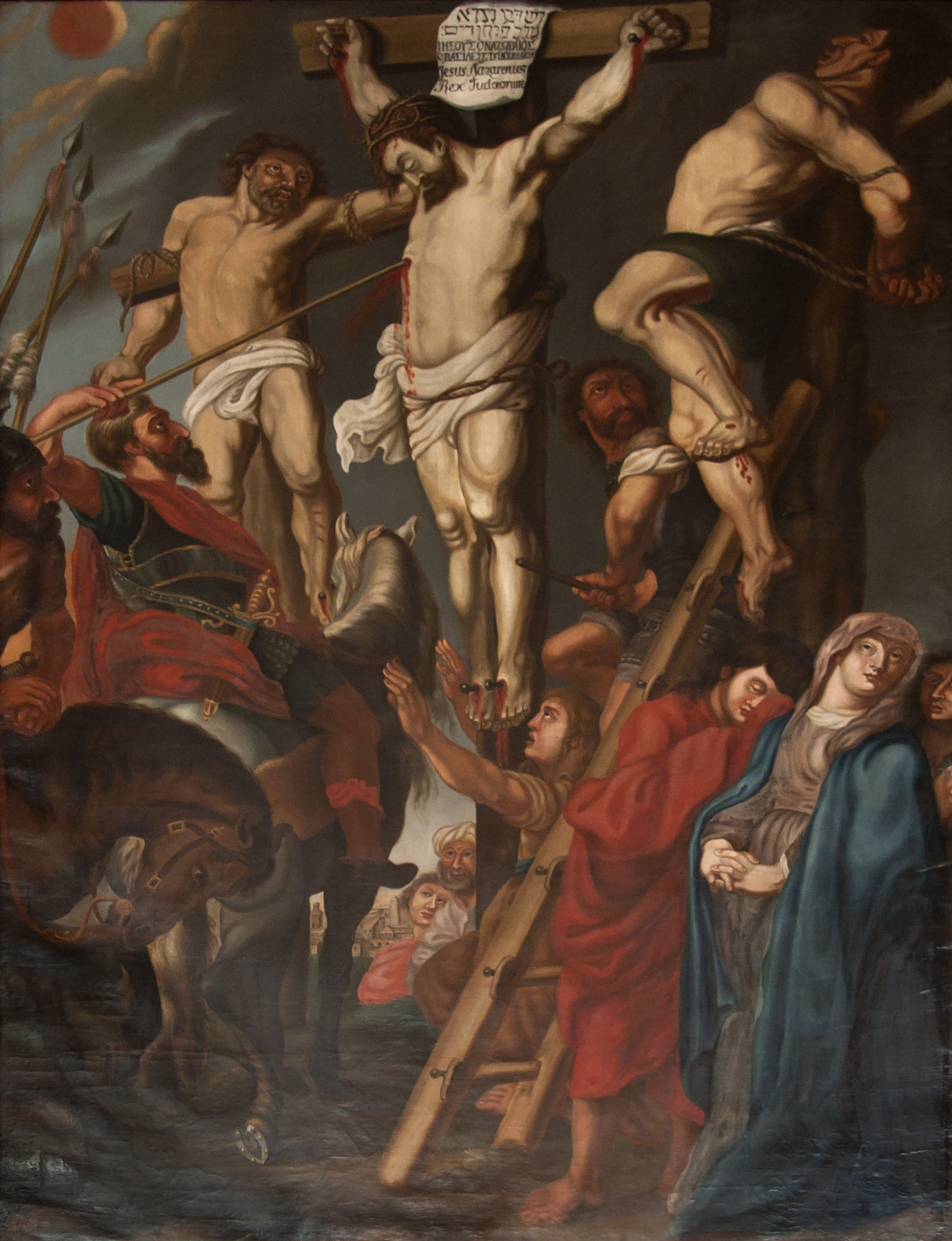 Kristus på korset (Christ on the cross), painting by Pehr Zetterberg and given to the Sankt Nicolai Church in Örebro, Sweden. The painting is a copy of a painting by Peter Paul Rubens.